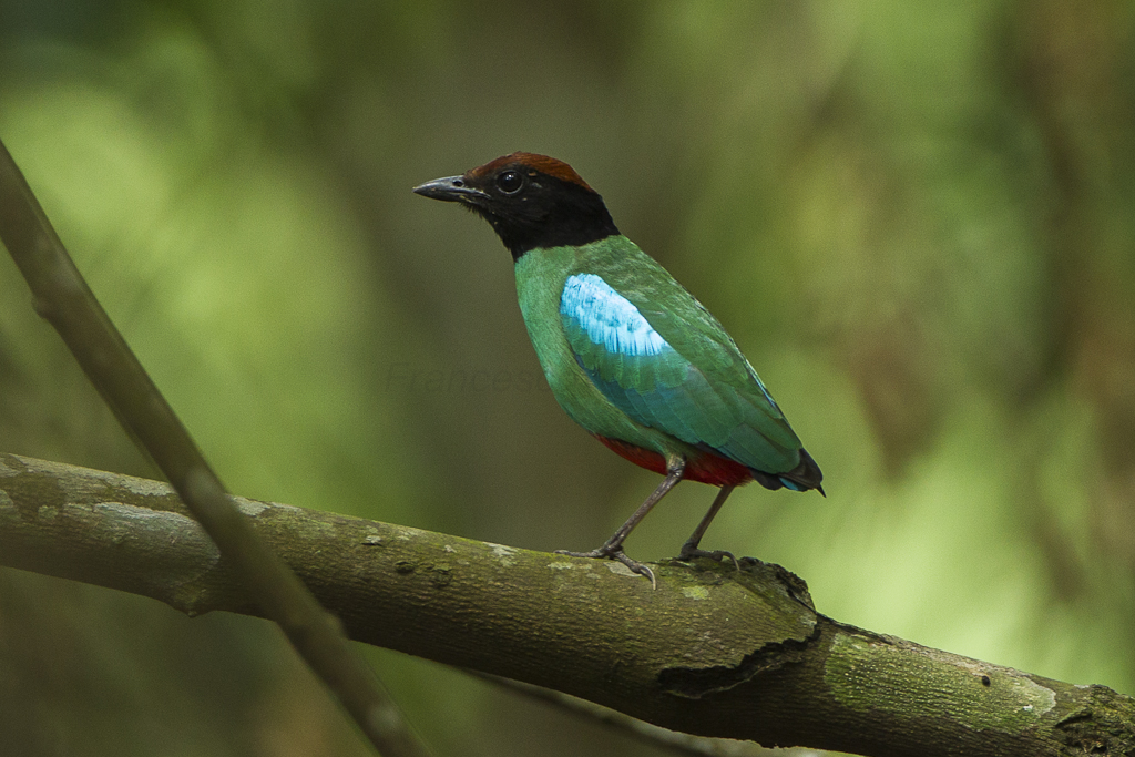 Hooded Pitta - Khao Yai - Thailand_S4E5572